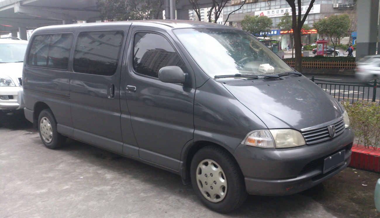 Jinbei Granse LWB photographed in Shanghai, China.